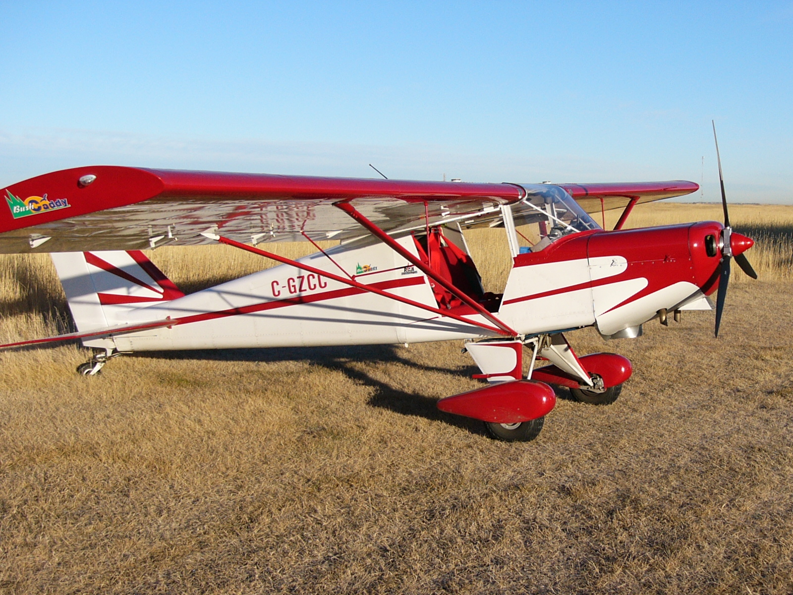 CLASS R-120 BushCaddy at the Chestermere-Kirkby Fly-in, Alberta, Canada.